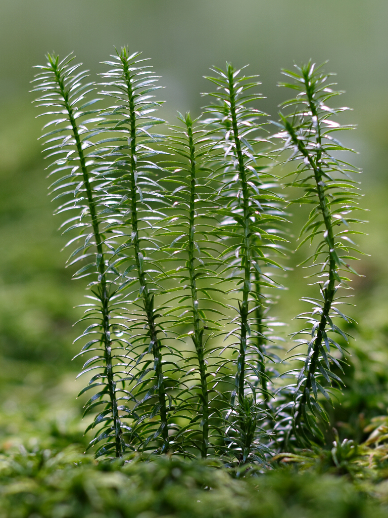 Stiff Clubmoss (Lycopodium annotinum) in Sipoonkorpi, Finland Dysmorodrepanis 12:42, 28 May 2008 (UTC)